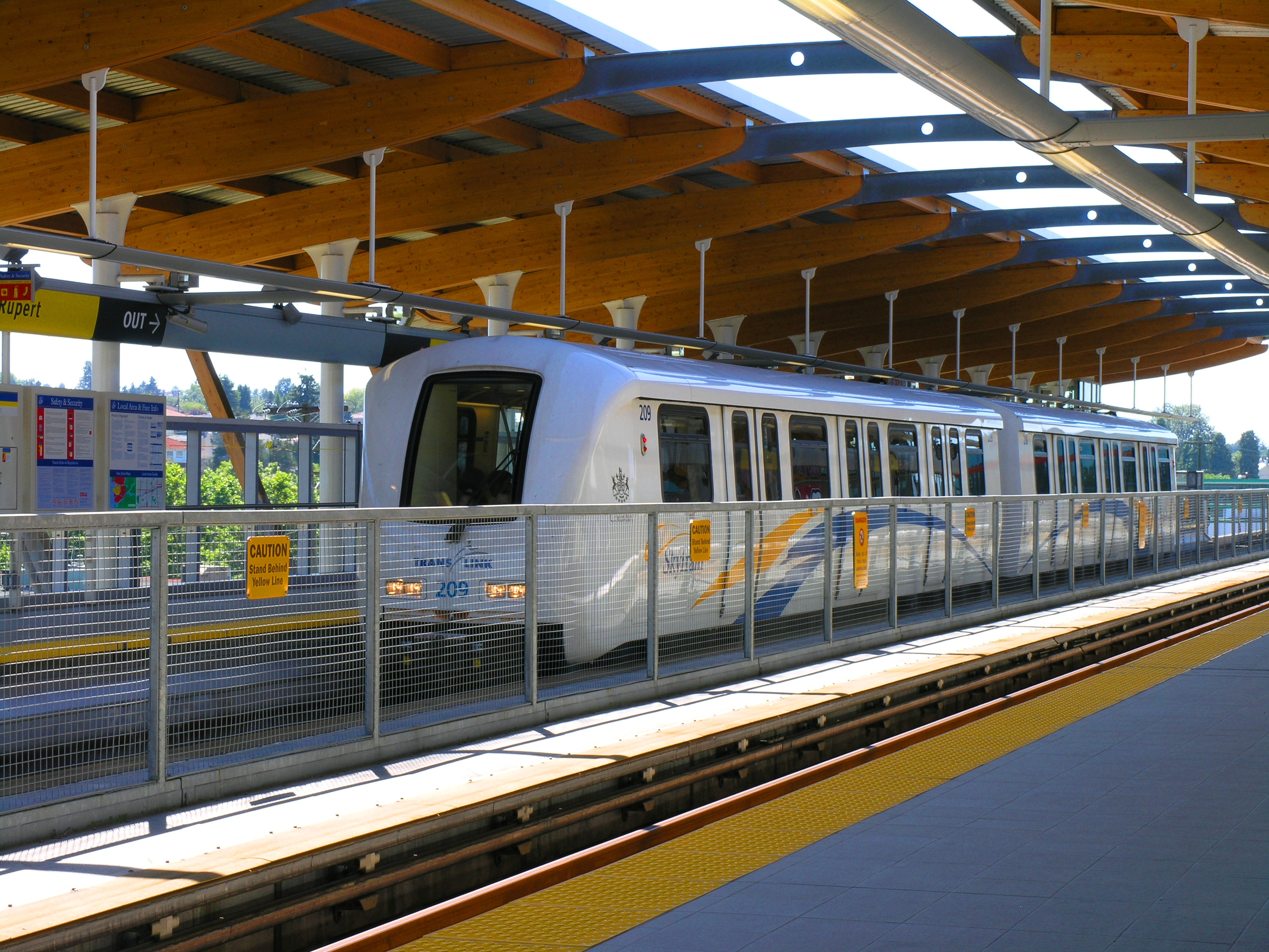 A train of Vancouver's Skytrain (Millenium Line) at Rupert station